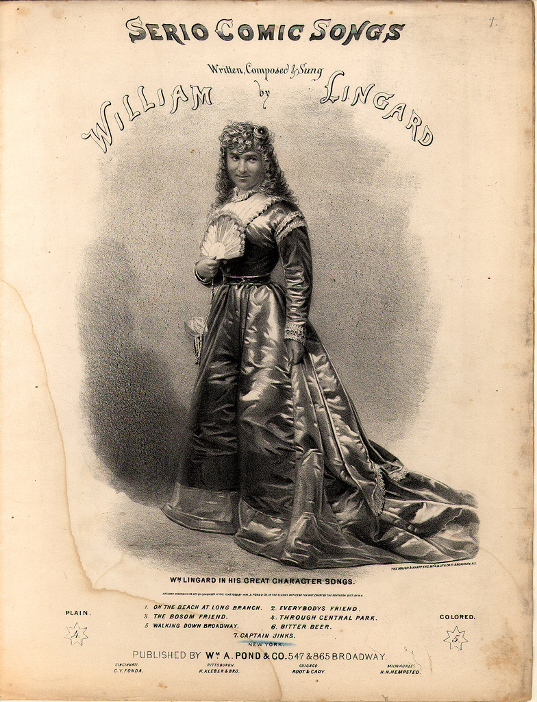 A songsheet of a work by William Lingard, showing him dressed as a woman.